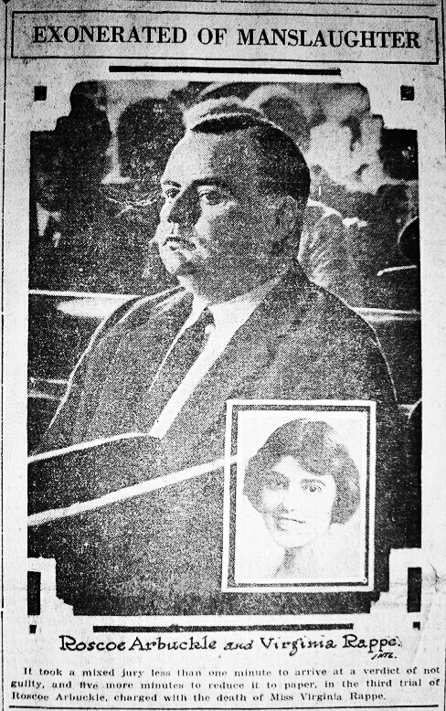 Roscoe Arbuckle Exonerated. It took a mixed jury less than one minute to arrive at a verdict of not guilty. Newspaper scan of outcome of the infamous third trial.